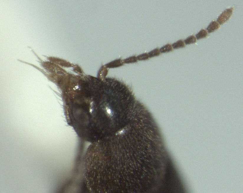 adult Myllaena sp.